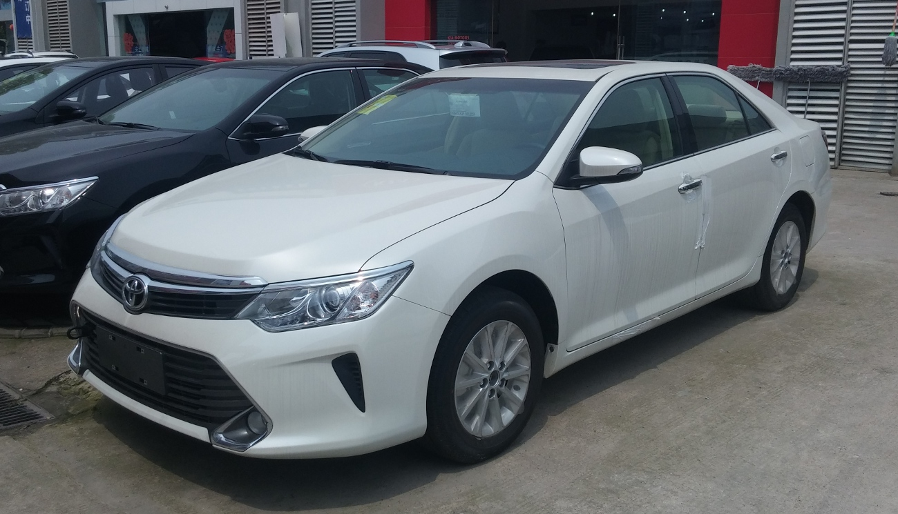 Toyota Camry XV50 facelift photographed in Wuhan, Hubei province, China.